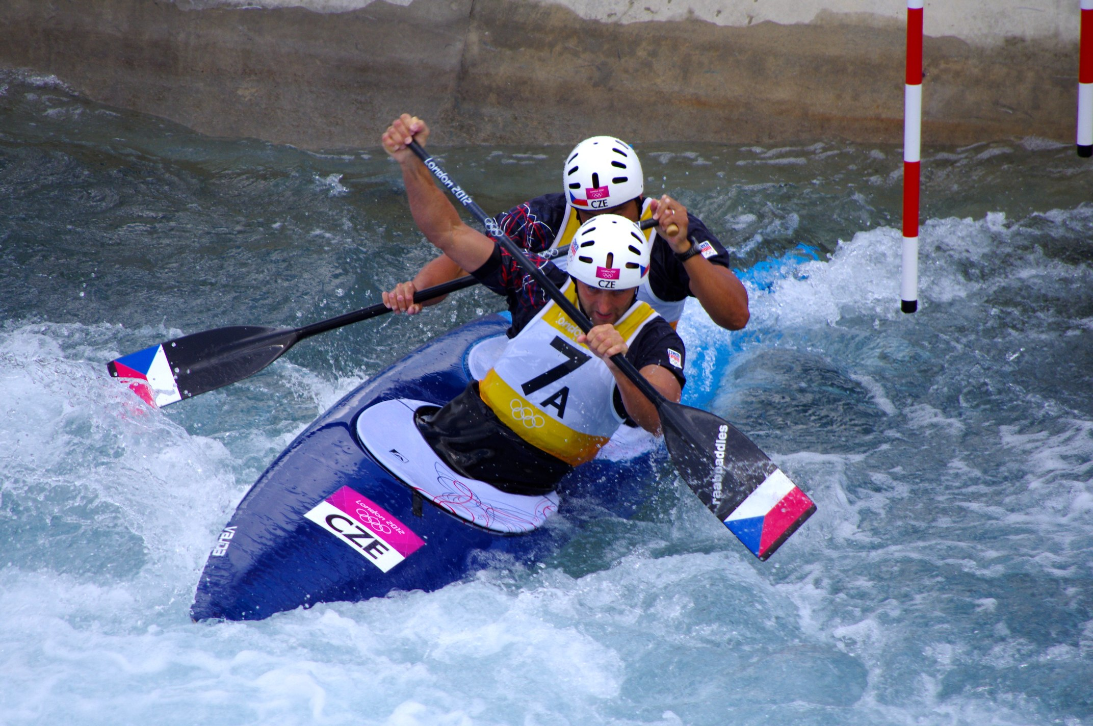 Canoeing at the 2012 Summer Olympics – Men's slalom C-2 Jaroslav Volf (7A) and Ondřej Štěpánek (7B) (CZE)